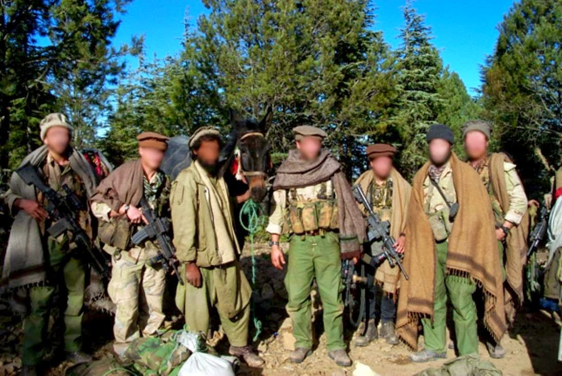 CBS News broadcast clips of videos taken by "Dalton Fury", author of the book "Kill Bin Laden", and his troops, while they searched for Osama Bin Laden in November 2001. Because "Fury" was on a mission I believe the images he and his men took are in the public domain.